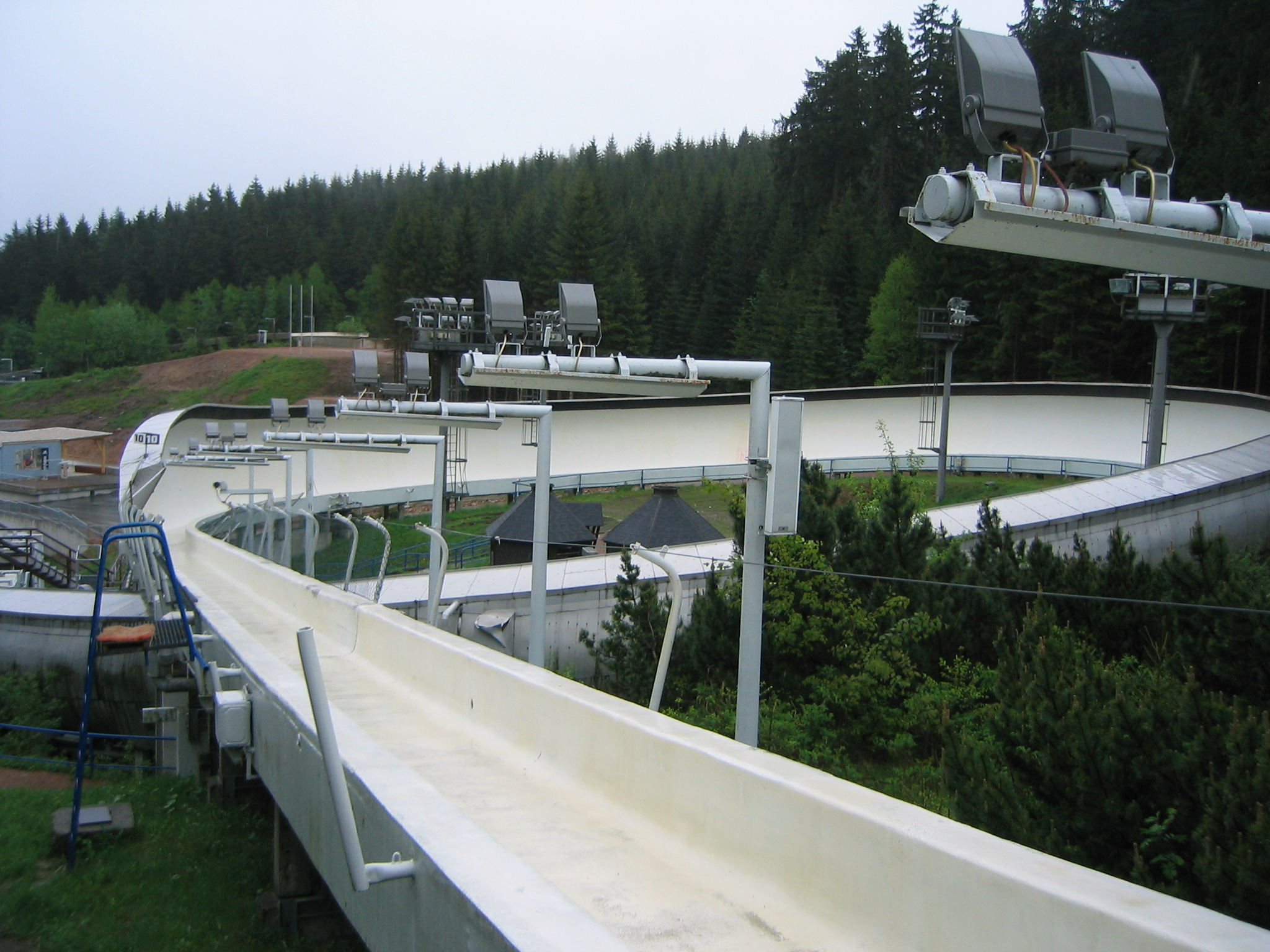 Bobsleigh track in Altenberg/Germany